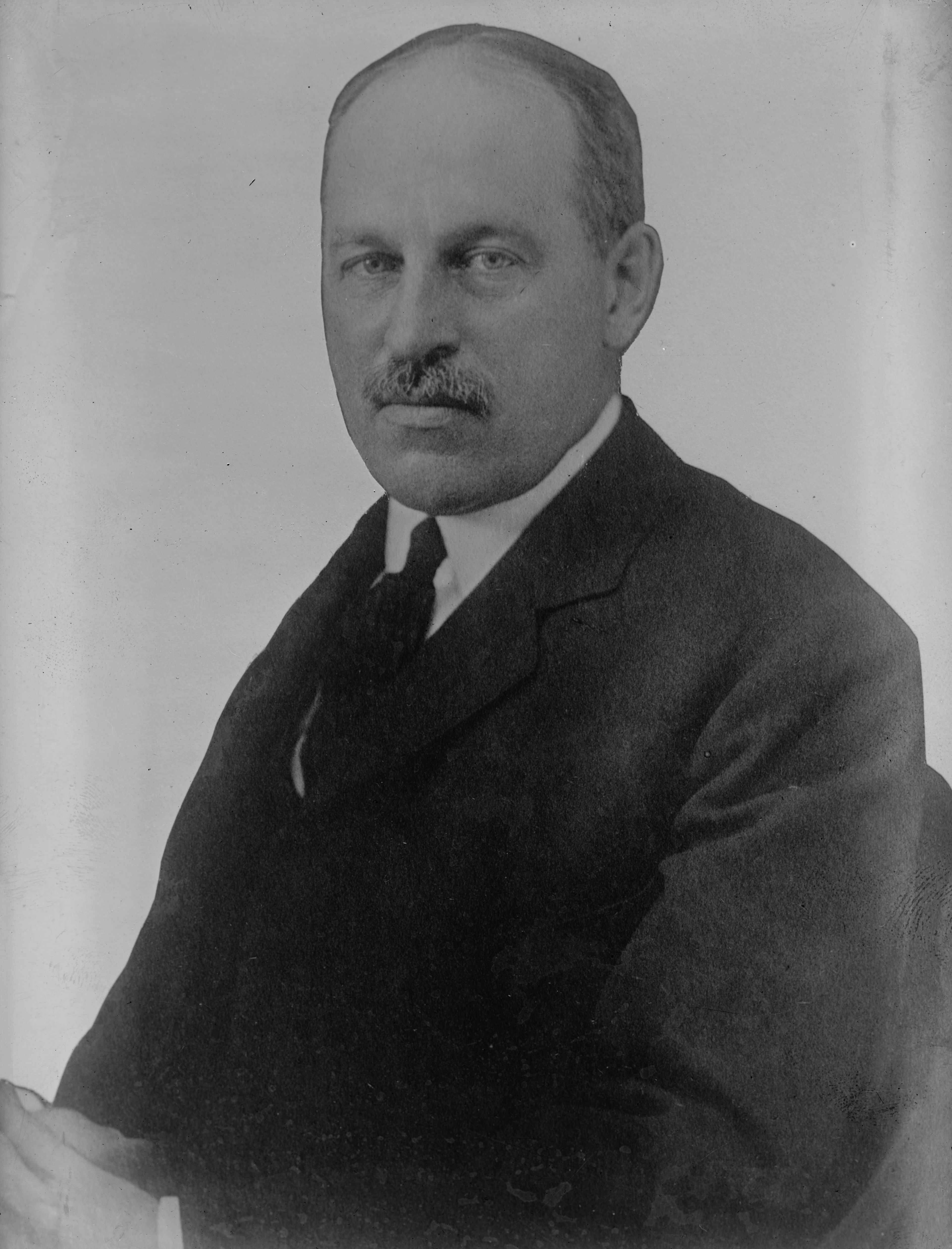 William Wallace Atterbury, circa 1913. [no date recorded on caption card] 1 negative : glass ; 5 x 7 in. or smaller. Notes: Title from unverified data provided by the Bain News Service on the negatives or caption cards. Forms part of: George Grantham Bain Collection (Library of Congress). Format: Glass negatives.